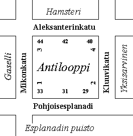 The map of the block of Antilooppi at Helsinki.